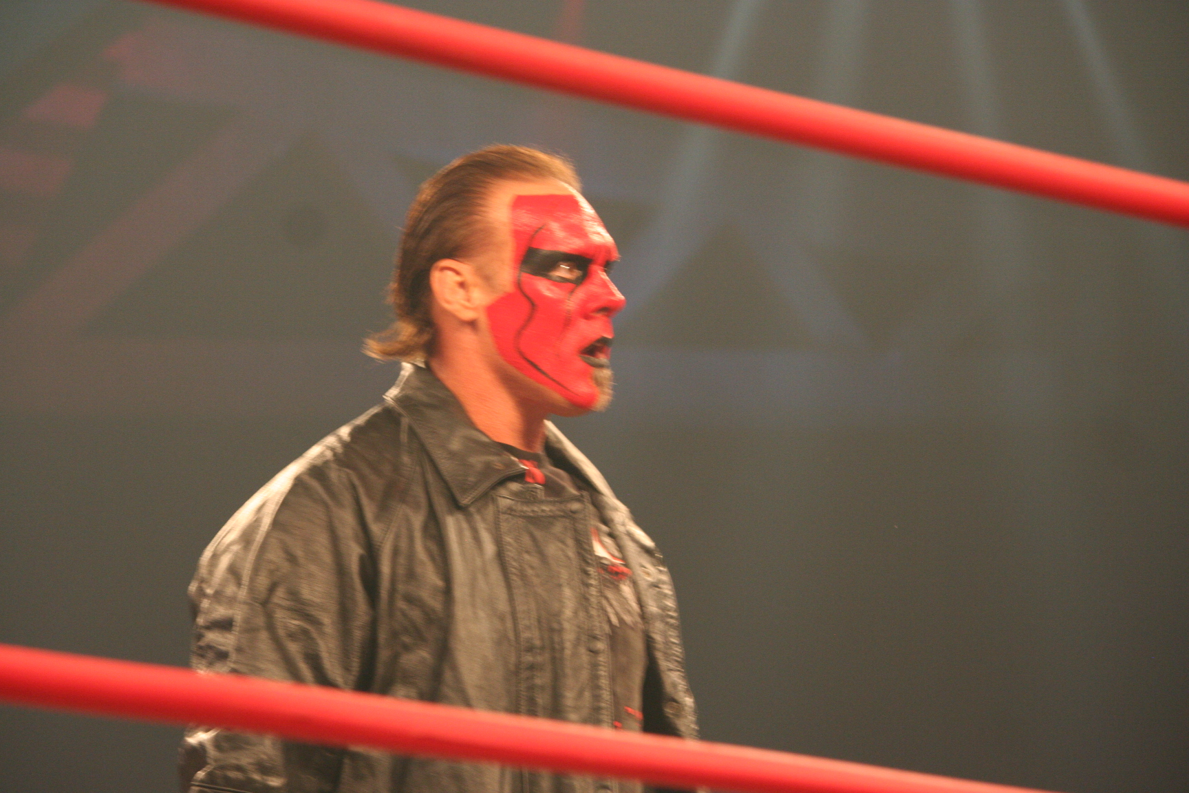 Professional wrestler Sting at a TNA Impact! taping